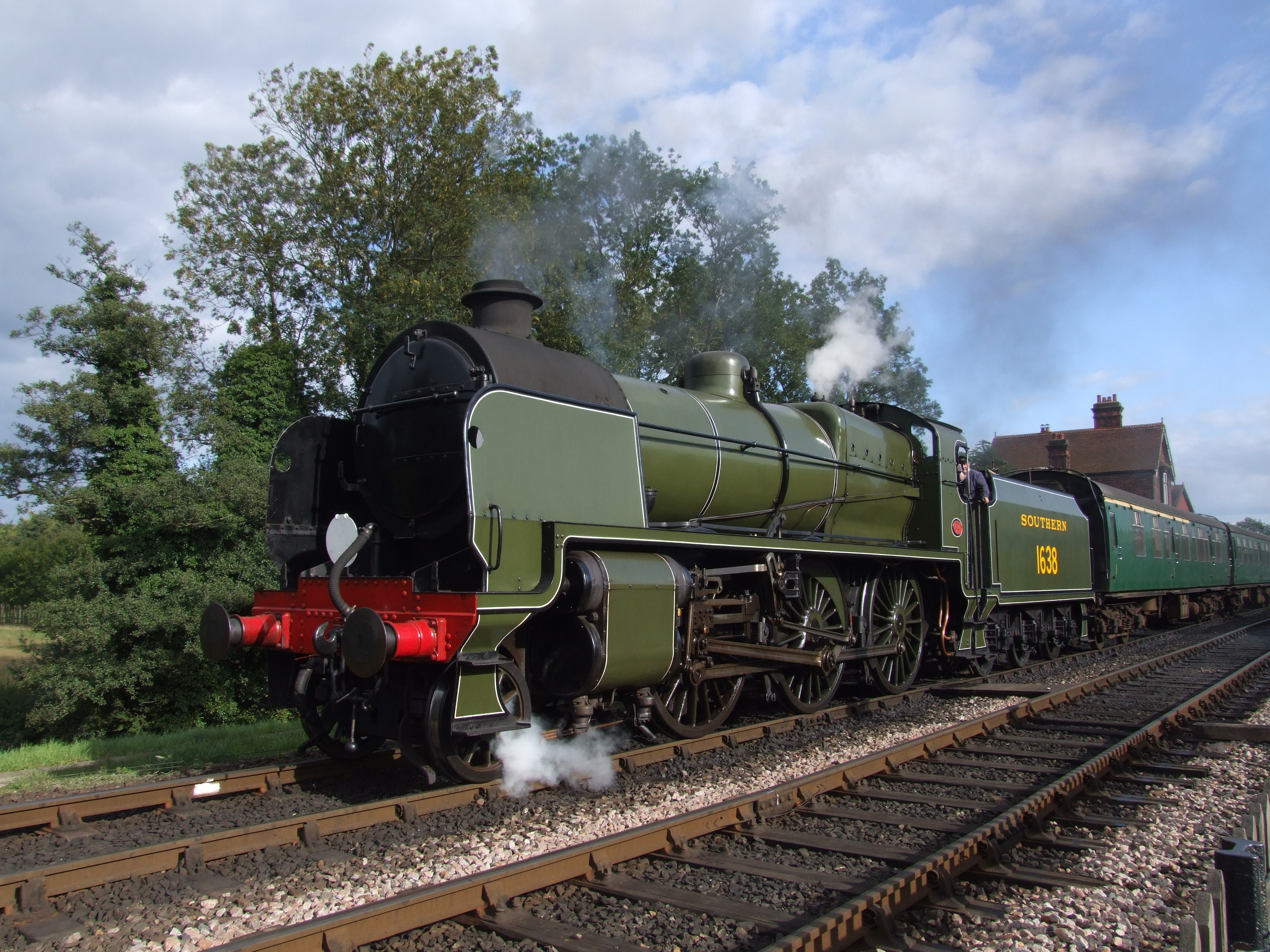 At Sheffield park